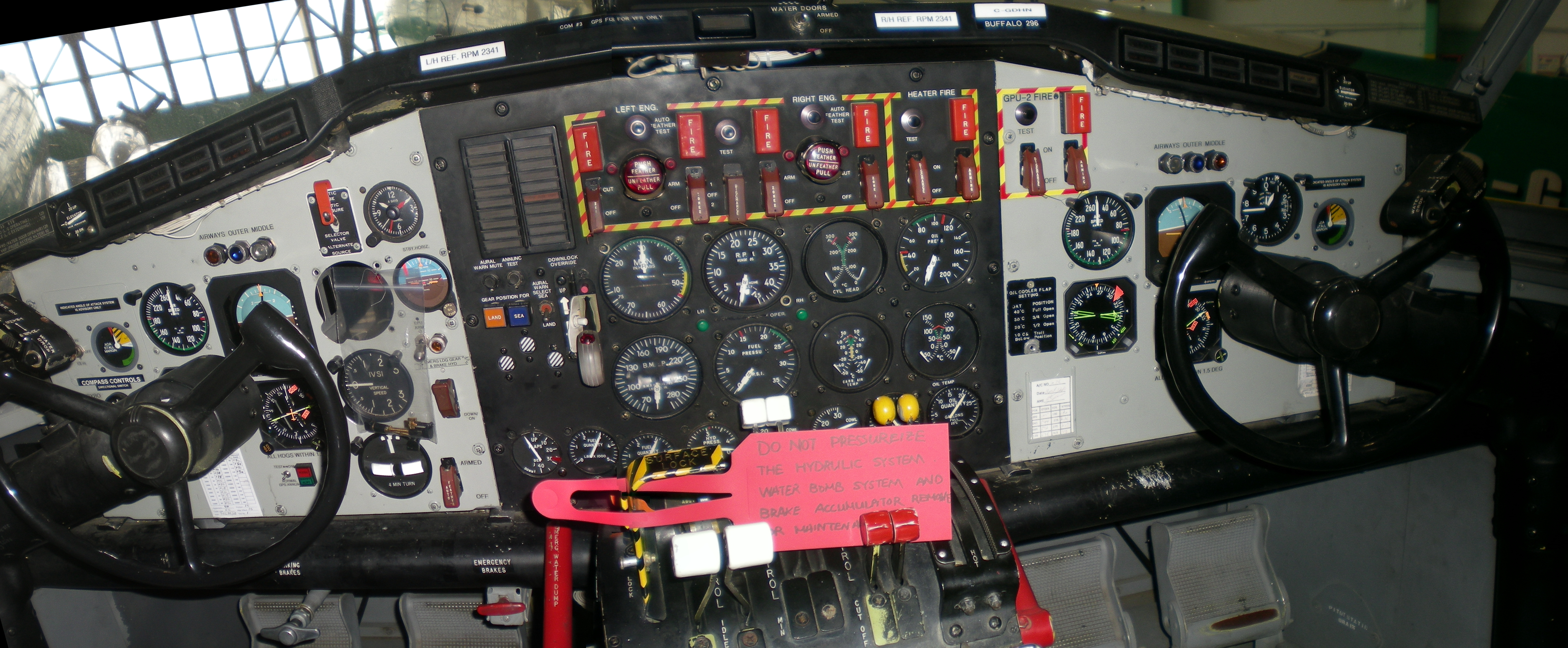 Cropped cockpit of Buffalo Airways Canadair CL-215 at Yellowknife, Northwest Territories, Canada.